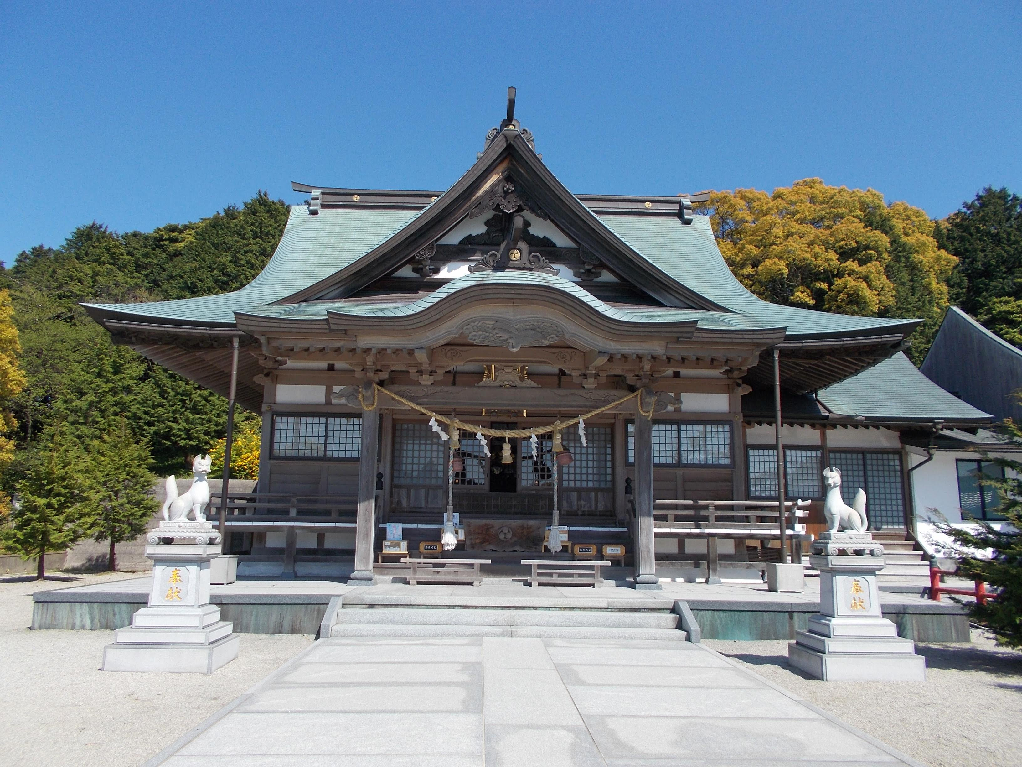 Honden or the main hall of Kagamiyama-jinja, a Shinto shrine in Karatsu, Saga, Japan